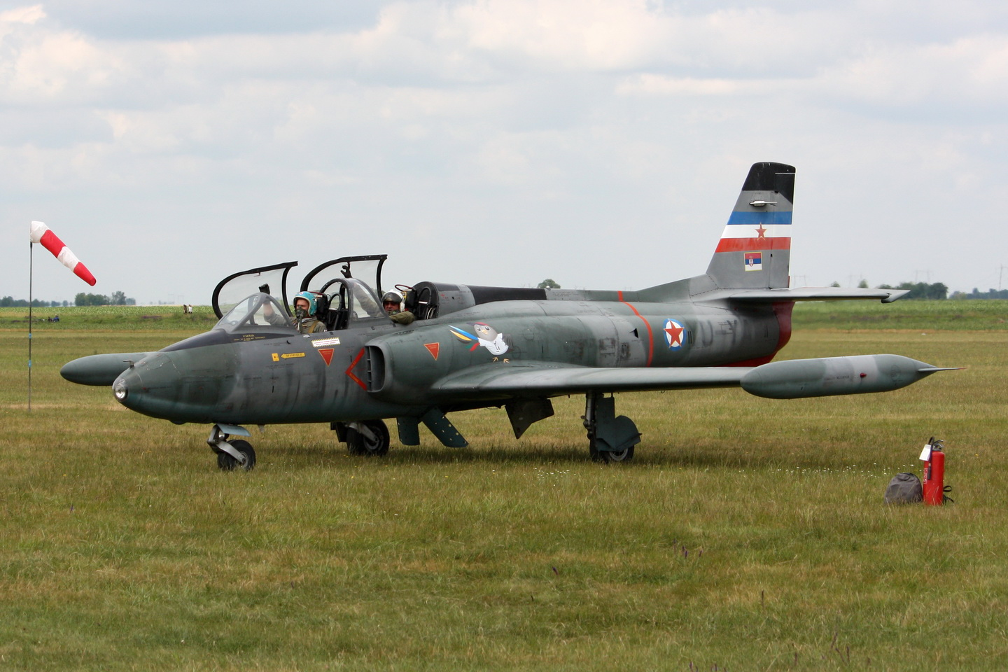 Airshow on Čenej airport, Novi Sad. Galeb G2 YU-YAB